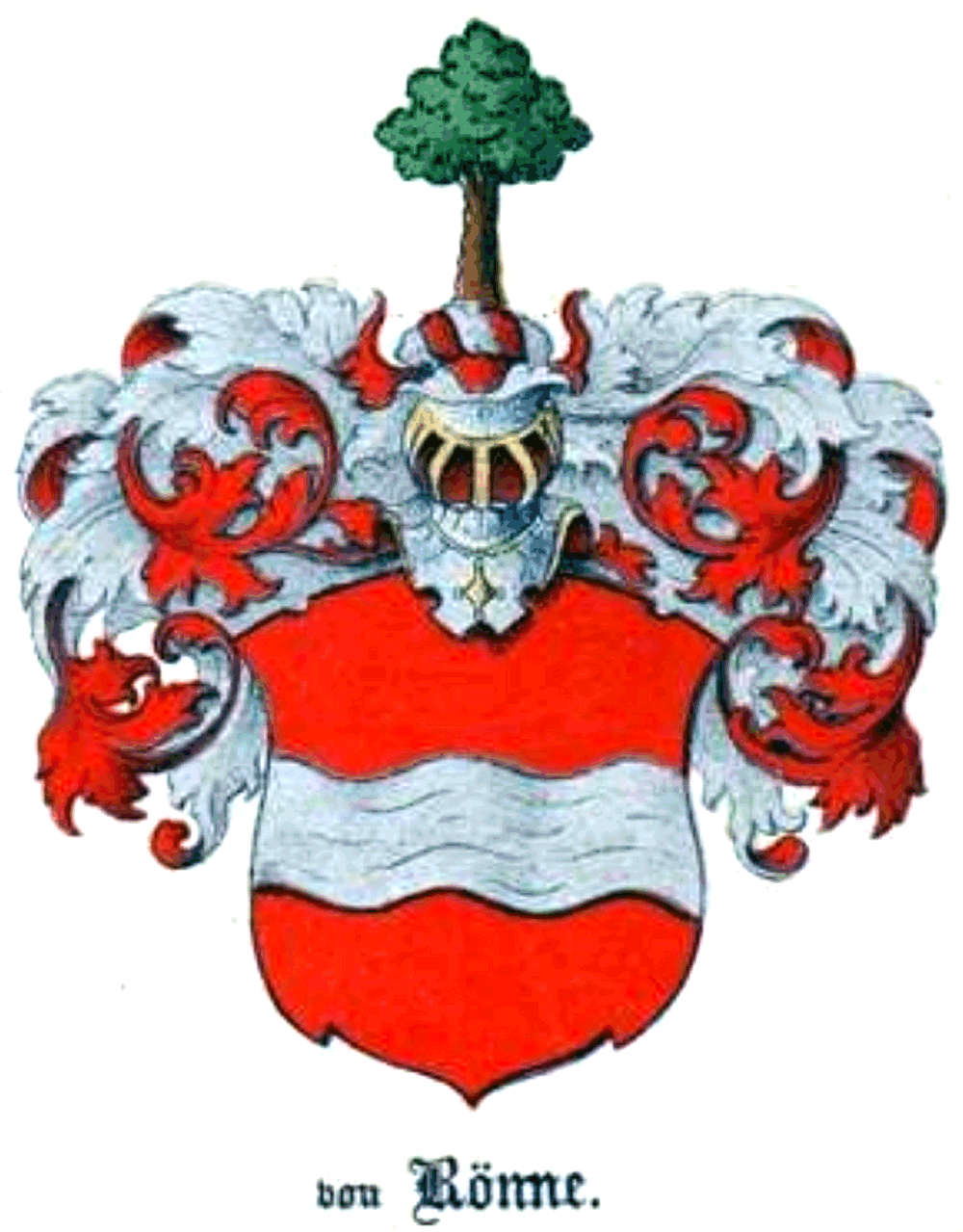 Coat of Arms of Roenne family